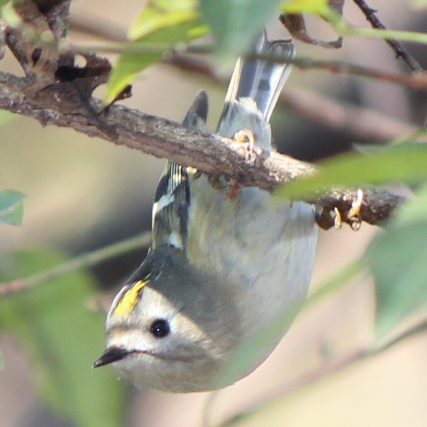 Regulus regulus japonensis (Goldcrest), in Japan.